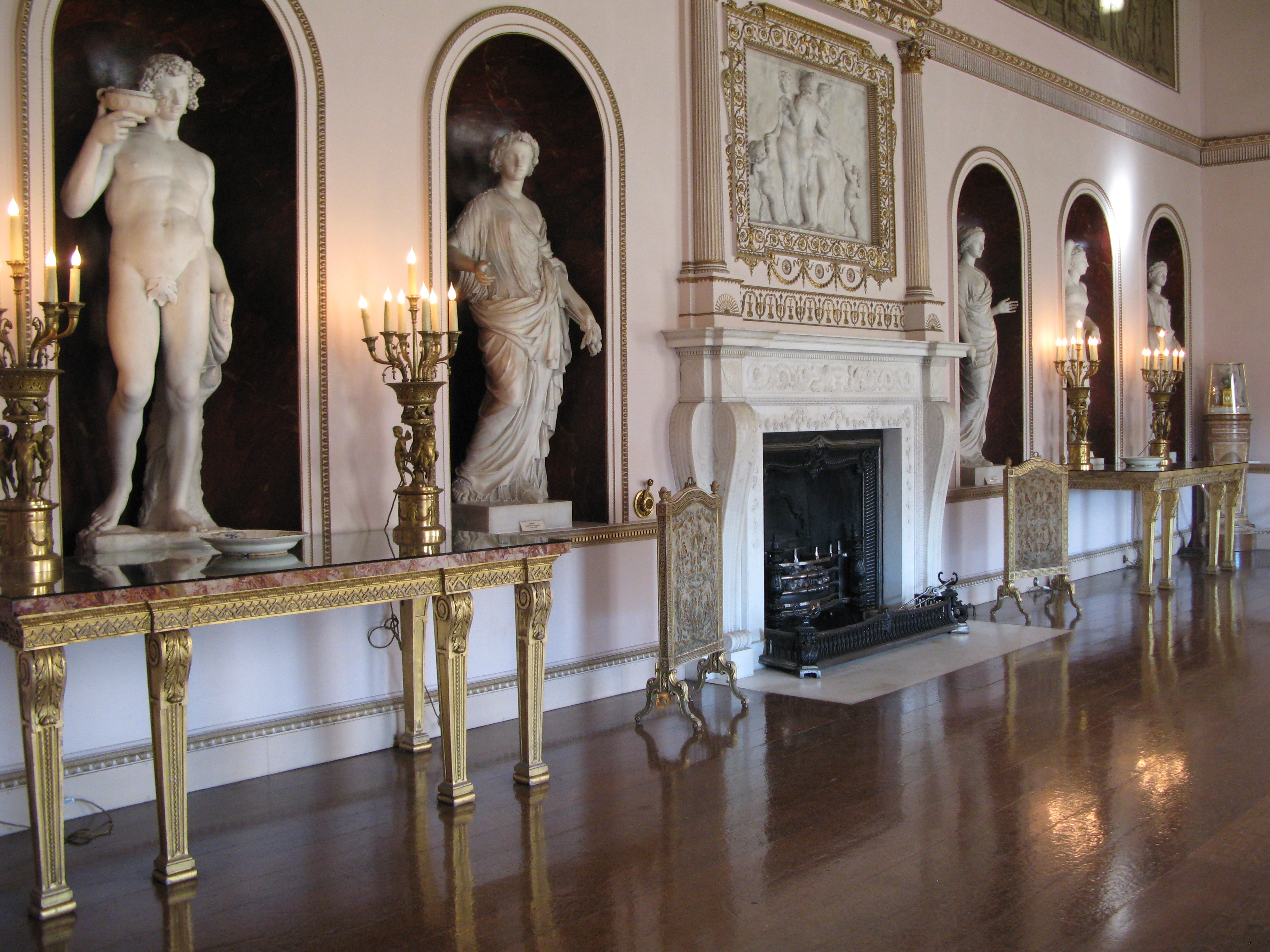 Interior of Syon House